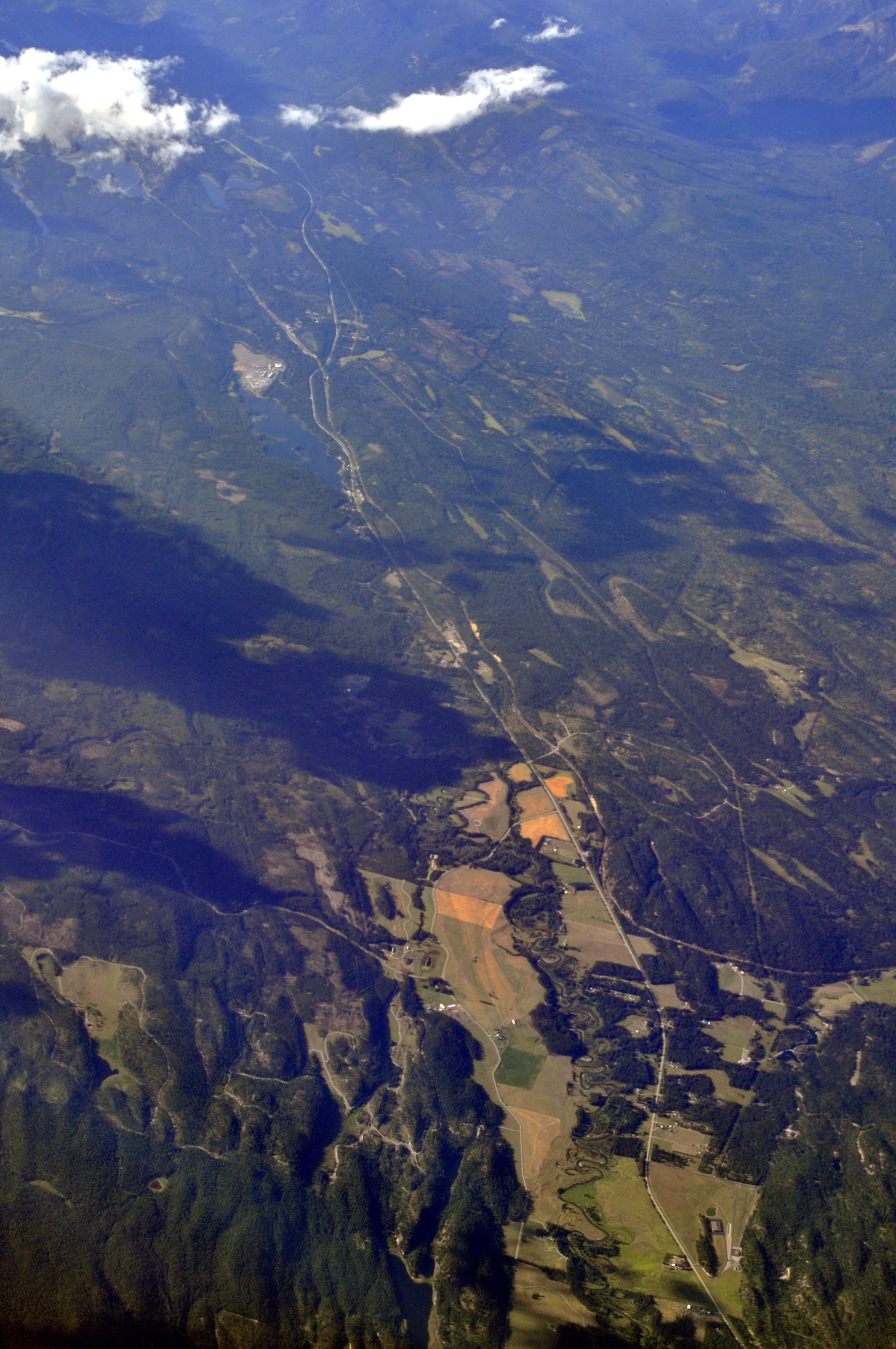 Aerial view from roughly south, of U.S. Route 93 and the Stillwater River in the U.S. state of Montana, near Lower Stillwater Lake (part of the river).